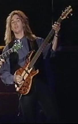 Billy Sherwood, 1994